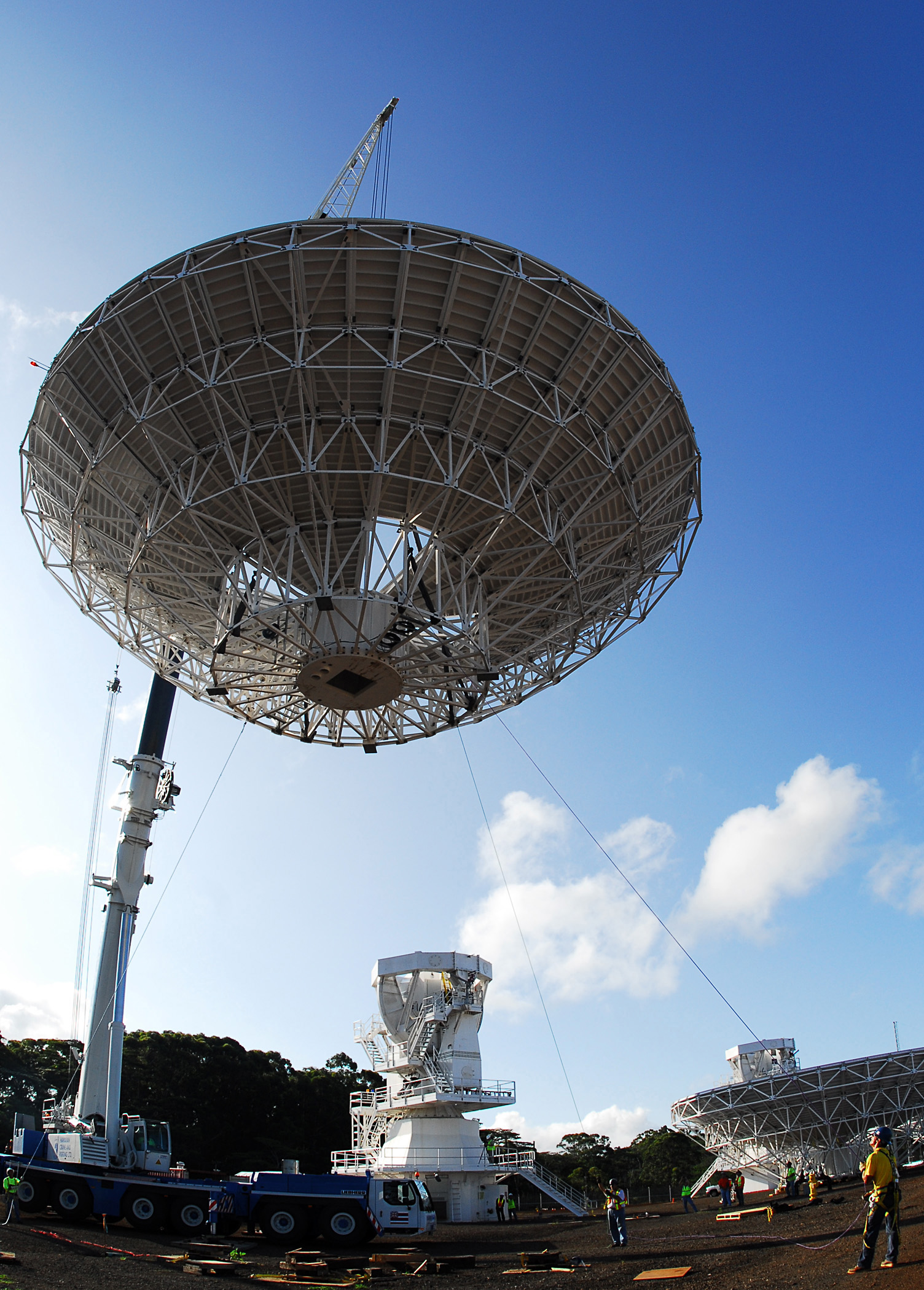 080715-N-9698C-022 WAHIAWA, Hawaii (July 15, 2008) Sailors assigned to Naval Computer and Telecommunications Area Master Station Pacific install the first of three new state-of-the-art Mobile User Objective System (MUOS) satellite dishes. The MUOS is a next-generation narrowband tactical satellite communications system intended to significantly improve ground communications for U.S. forces on the move.